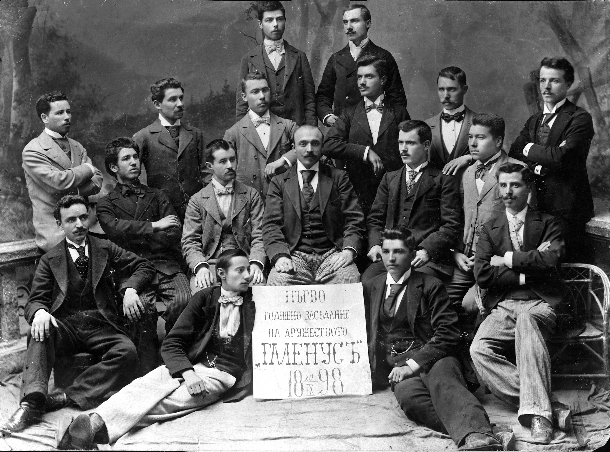 Pharmaceutical company "Galenus"